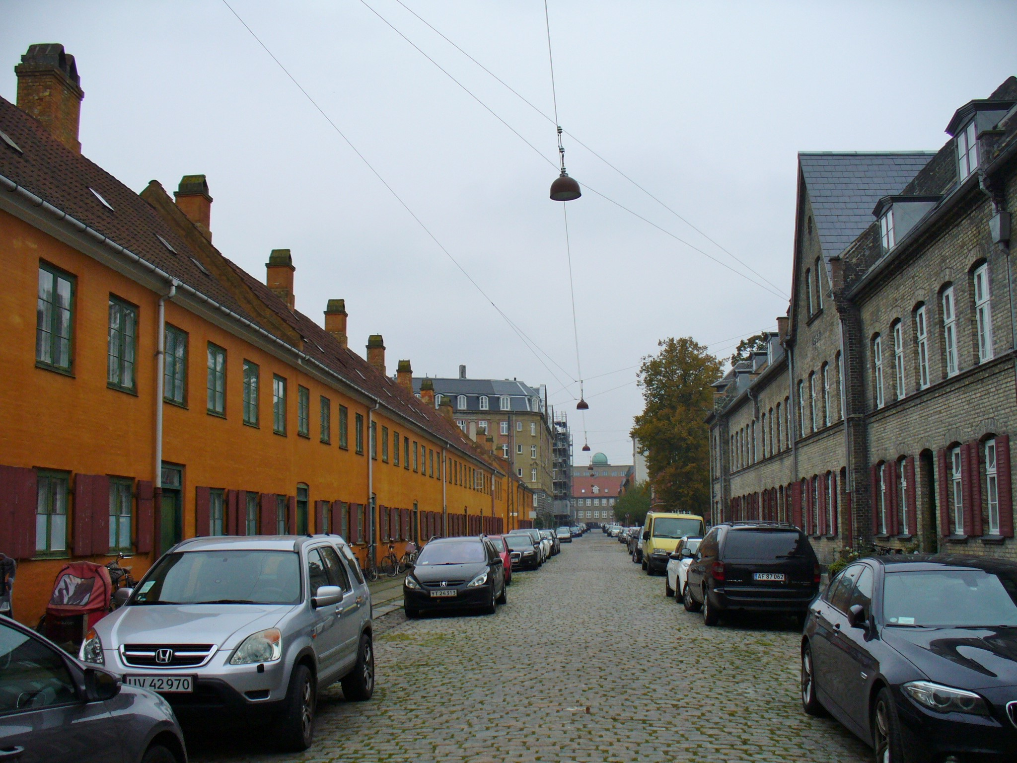 The street Olfert Fischers Gade in the area Nyboder in Copenhagen.